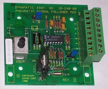 Pneumatic to electrical signal transducer circuit. Sensor above of marking XDCR